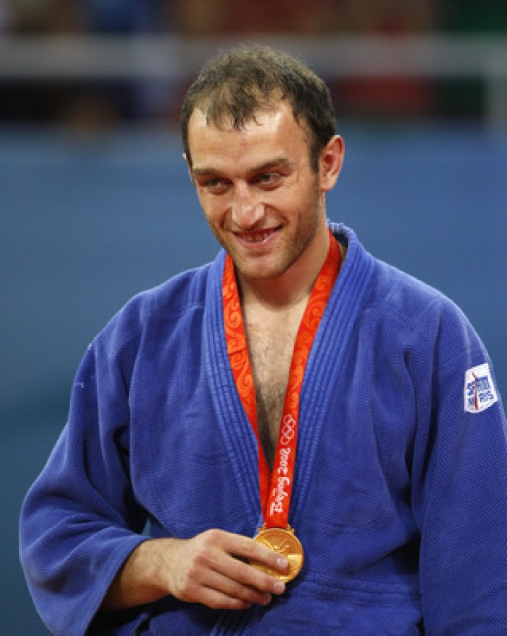 Georgian Judo Team Coach